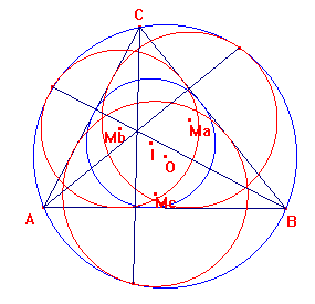 The three mixtilinear incircles and the concurrence of the lines connecting vertex and point of tangency with circumcircle.